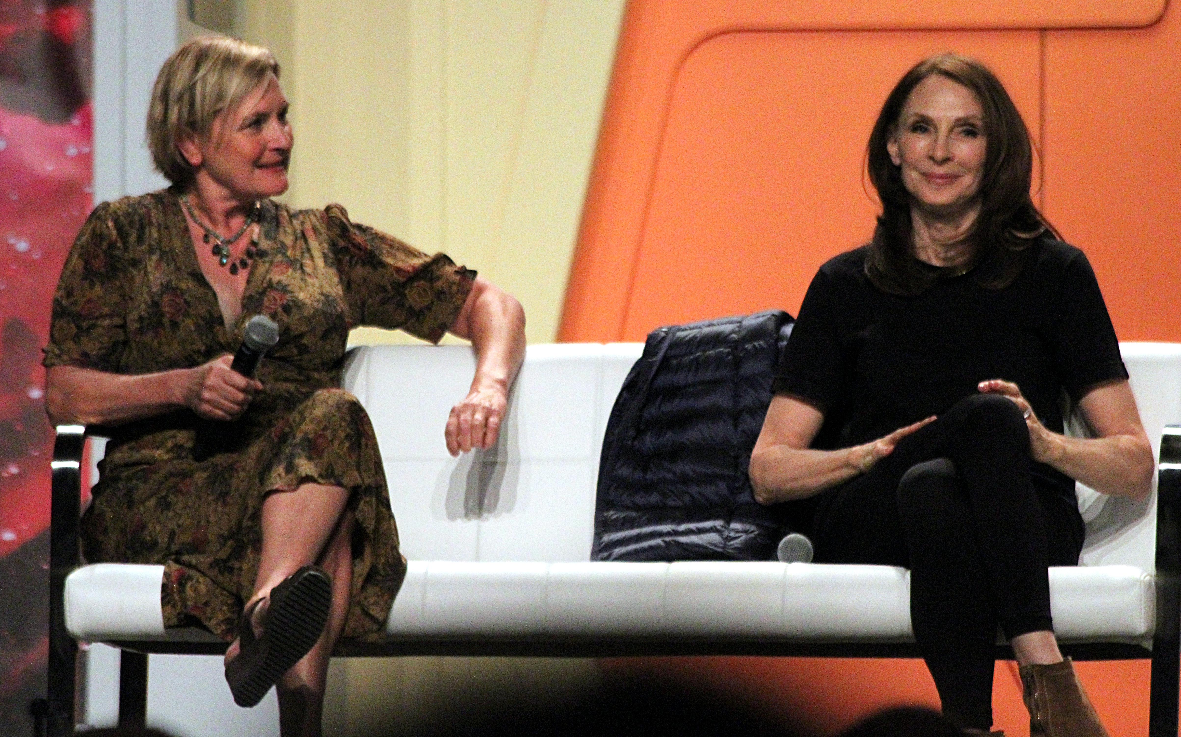 Gates McFadden ("Beverly Crusher"), right, with first season Co-Star Denise Crosby ("Tasha Yar") at Creation Entertainment's Star Trek Las Vegas Convention